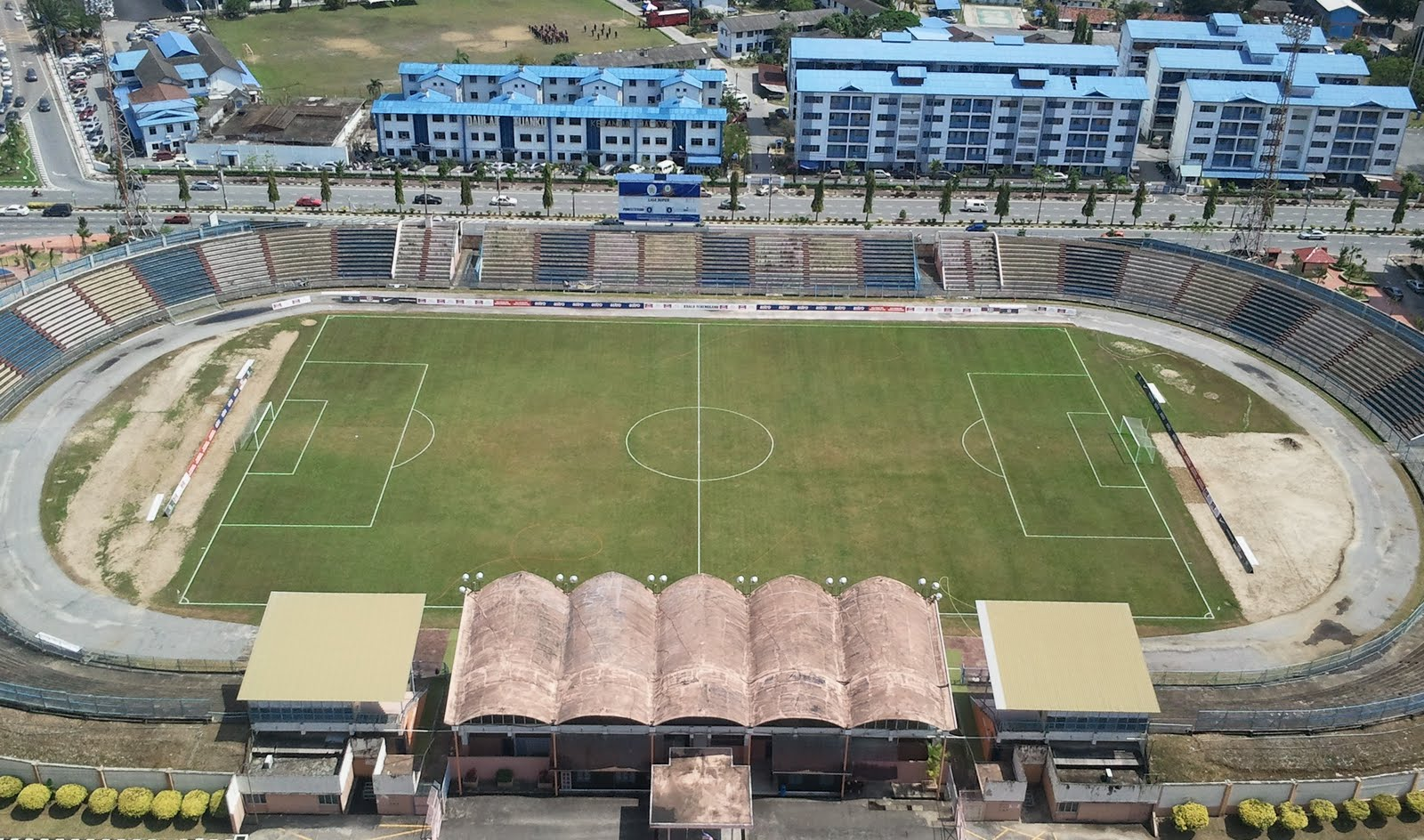 df